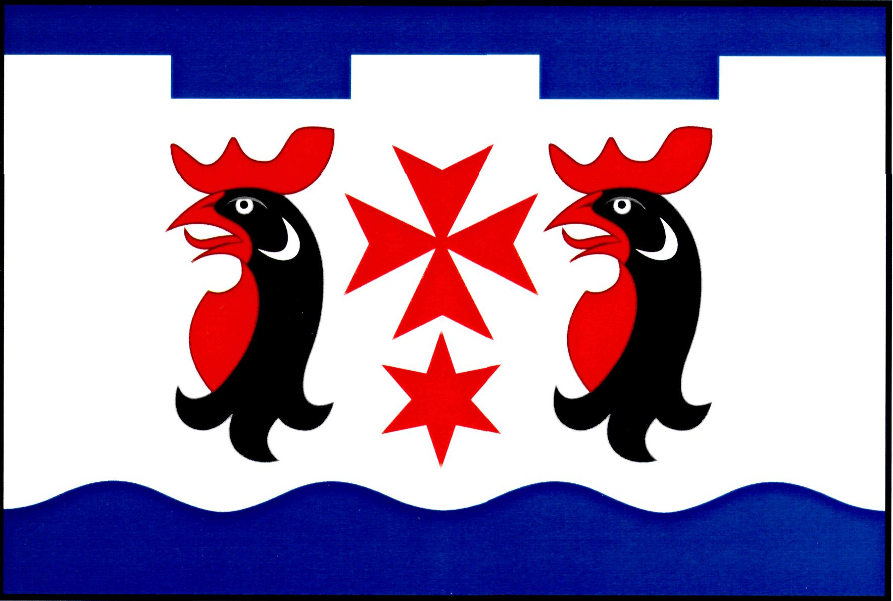 Municipal flag of Předboj , District Prague East, Czech Republic